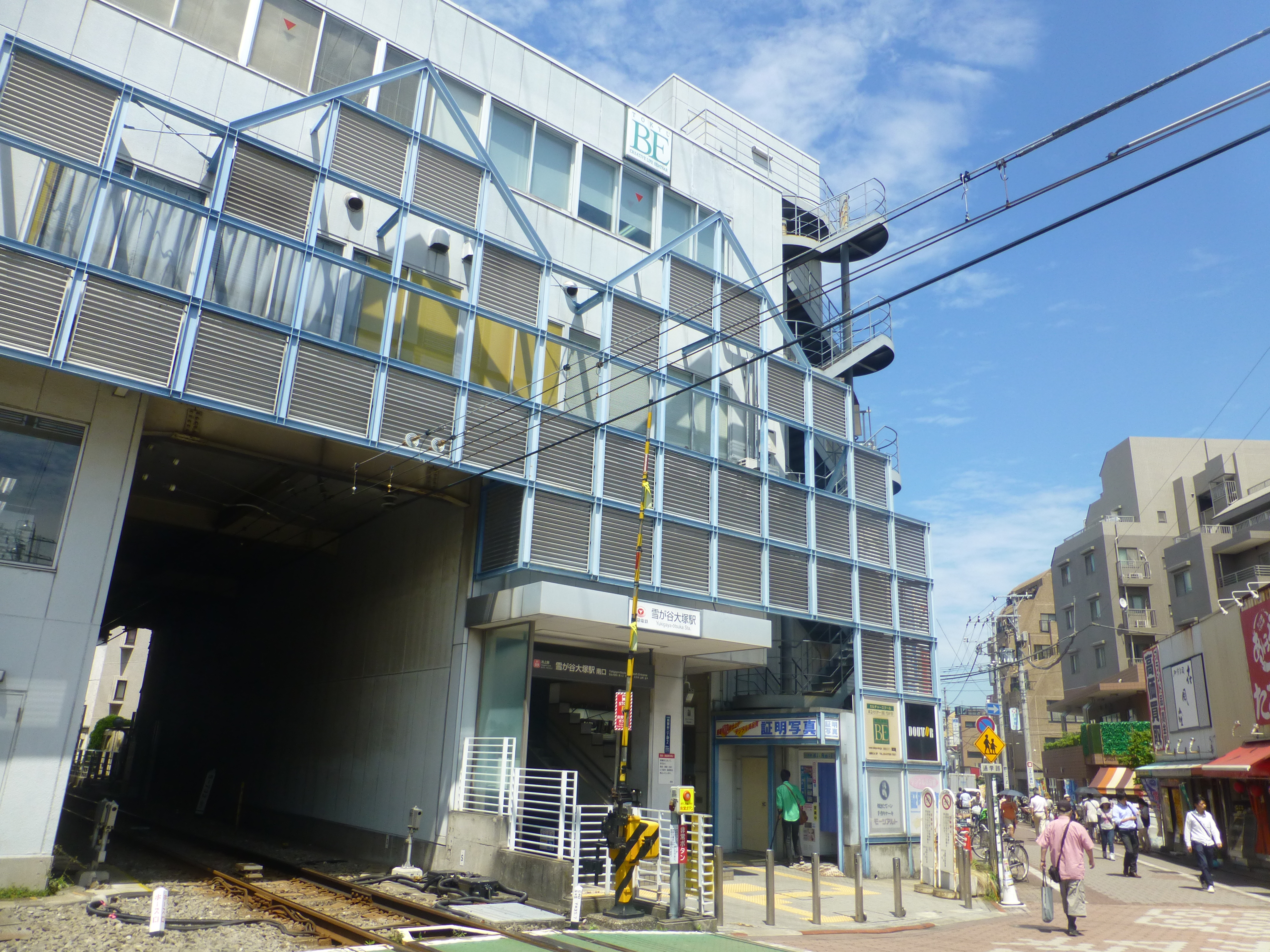 Yukigaya-Ōtsuka Station south exit (雪が谷大塚駅の南口)